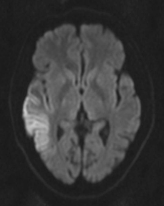 "This diffusion-weighted MR image shows cortical ribbon-like high signal consistent with diffusion restriction in a patient with known MELAS and an acute presentation with confusion and focal neurological deficit." (dr Dawes)